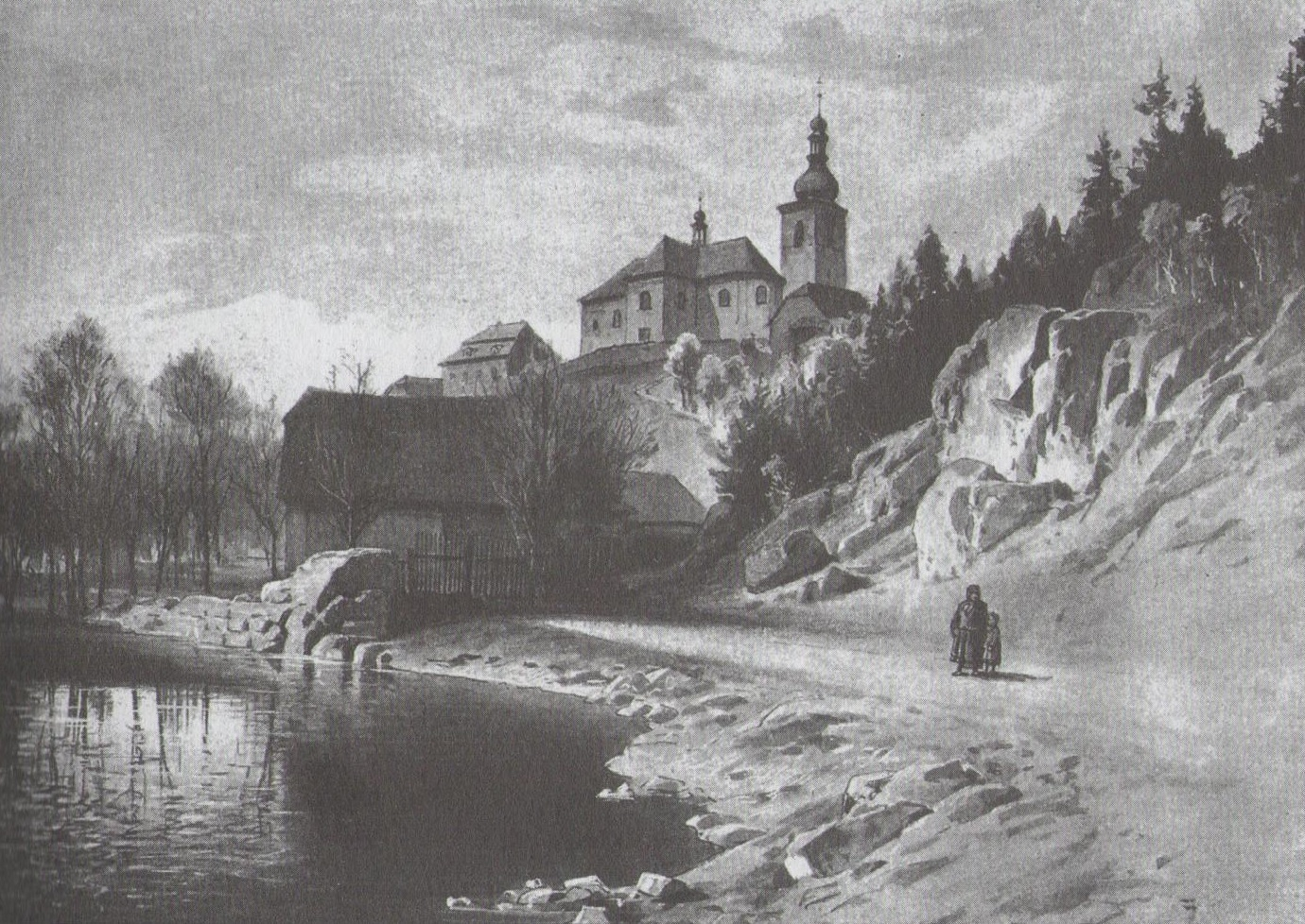 Church of the Nativity of Saint John the Baptist Pribyslav by Karel Liebscher